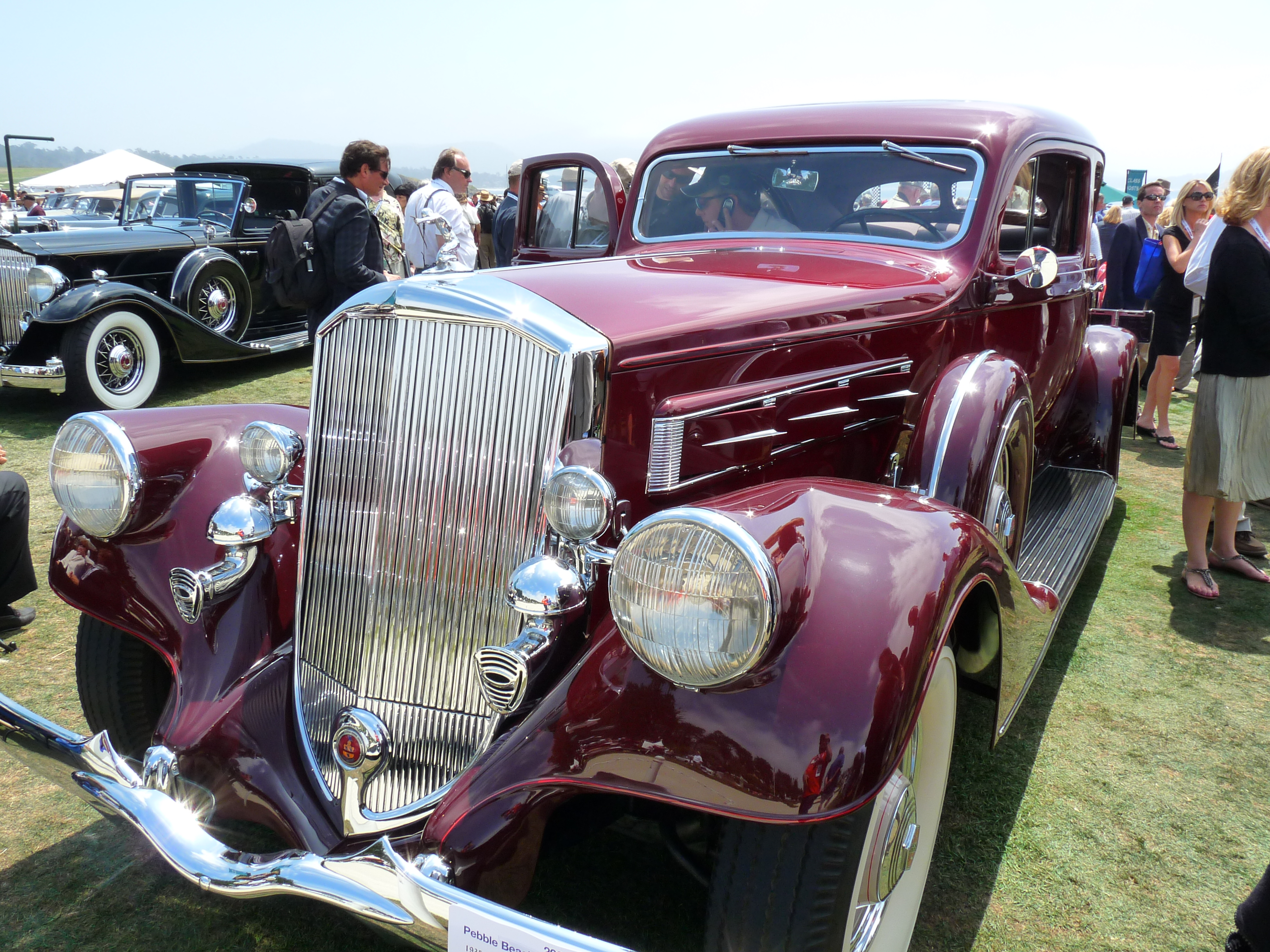 1935 Pierce Arrow 845 V12 Silver Arrow Coupe